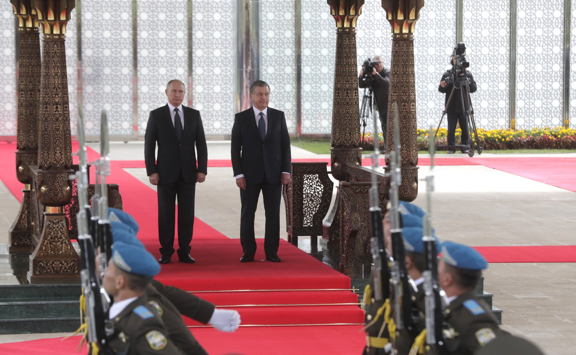 Vladimir Putin had talks with President of Uzbekistan Shavkat Mirziyoyev in Tashkent.